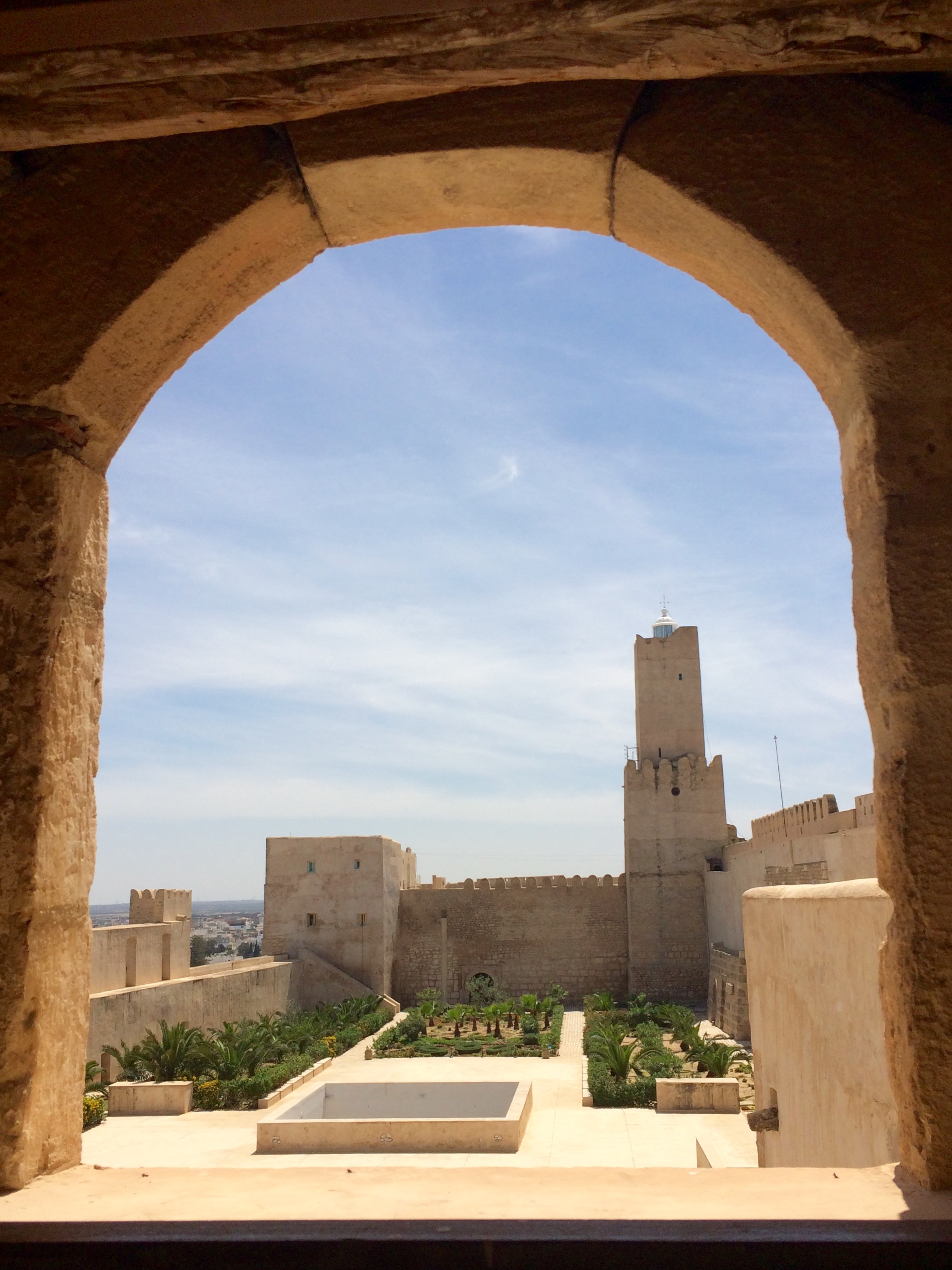 Sousse, Inside the Medina, as seen through a window on 19 February, 2016